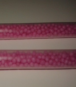 Milk flavouring straws with granules dyed with e120.